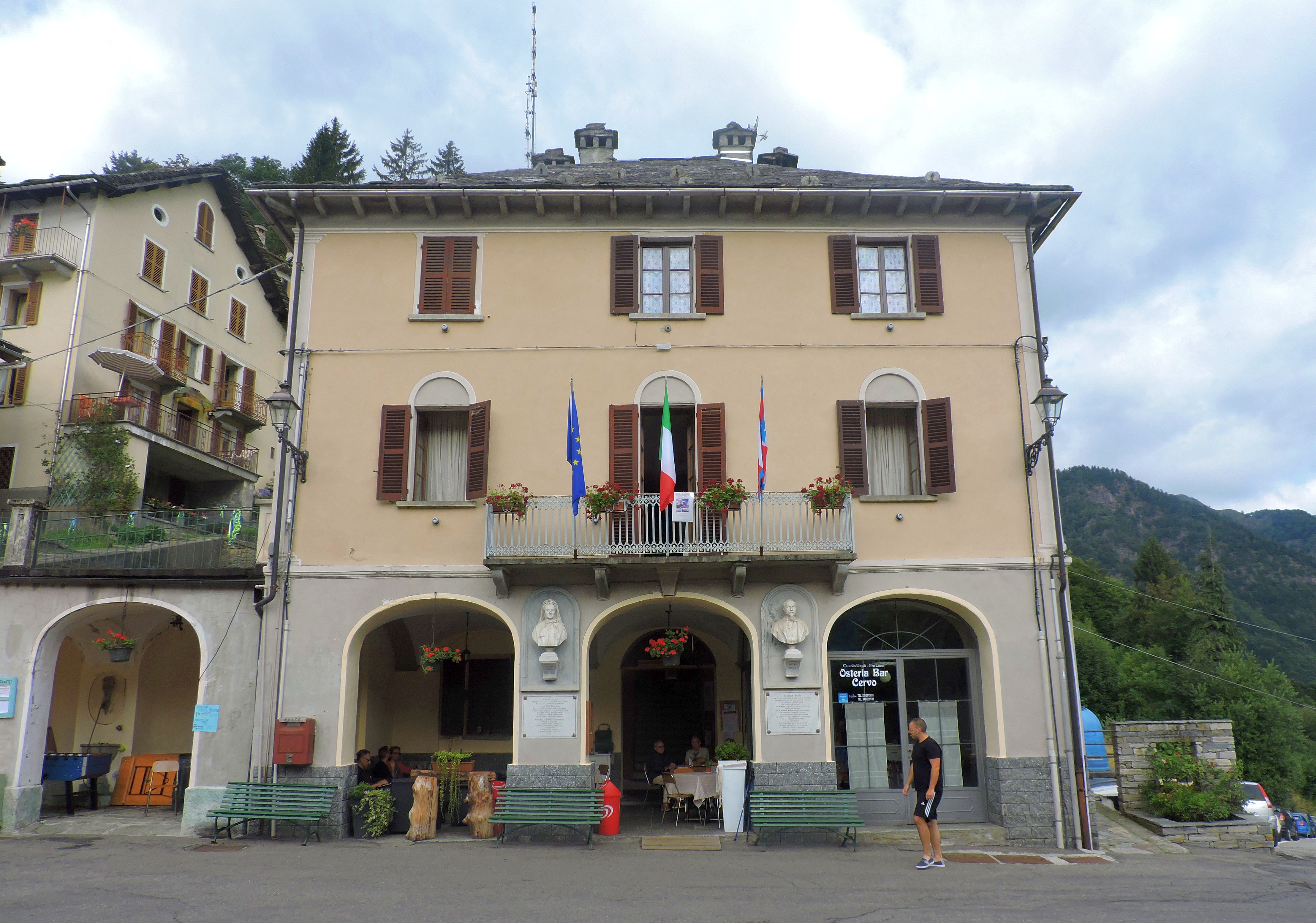 Cervatto (VC, Italy): town hall